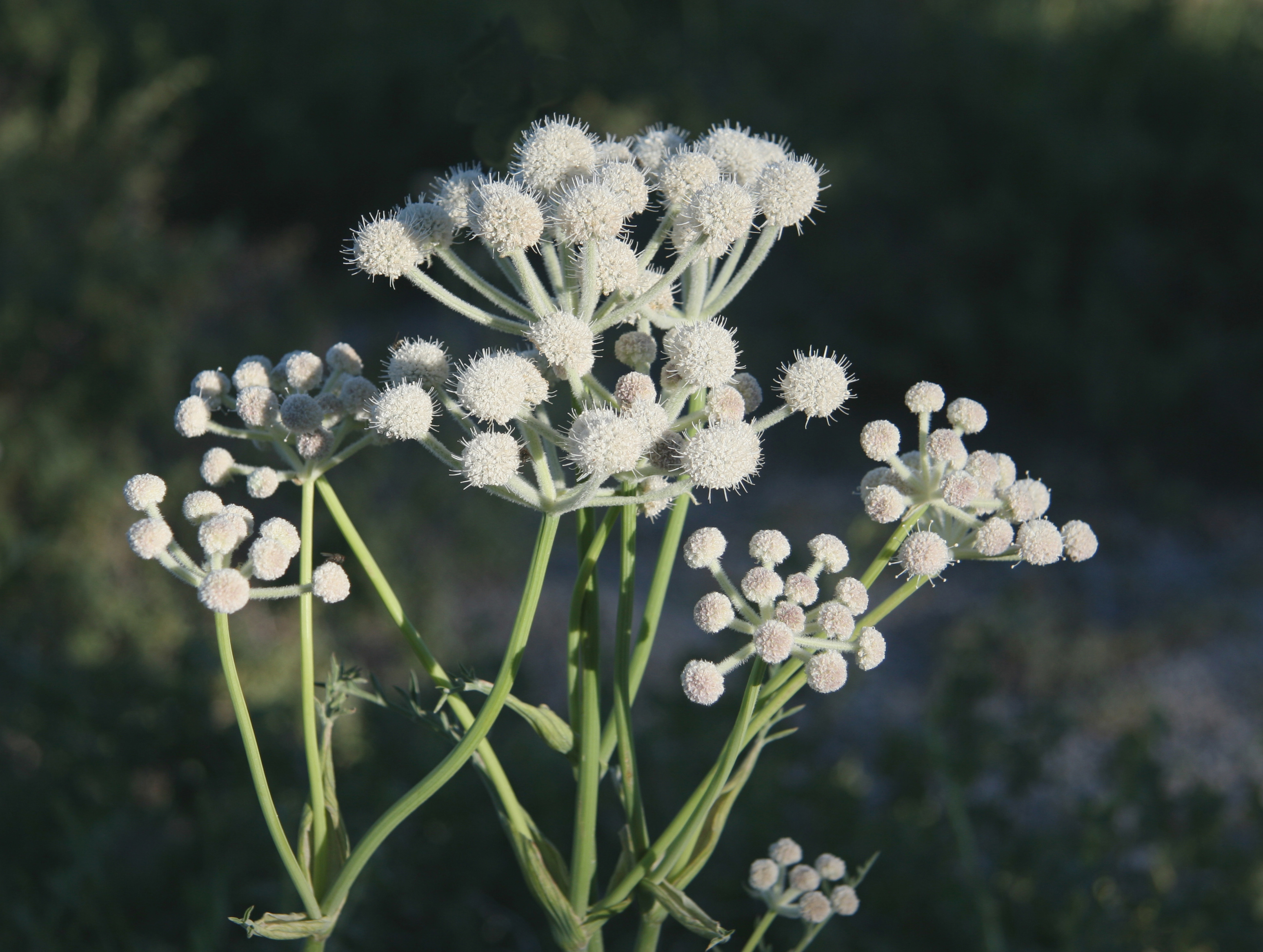 Ranger's buttons, or swamp whiteheads, (Sphenosciadium capitellatum) flowerheads at 2,900 m (9,500 ft) on the ridge north of Minaret Summit. Shows both in bud and flower the typical carrot-family umbels, but with this species' unusually spherical individual flowerheads (the "buttons").